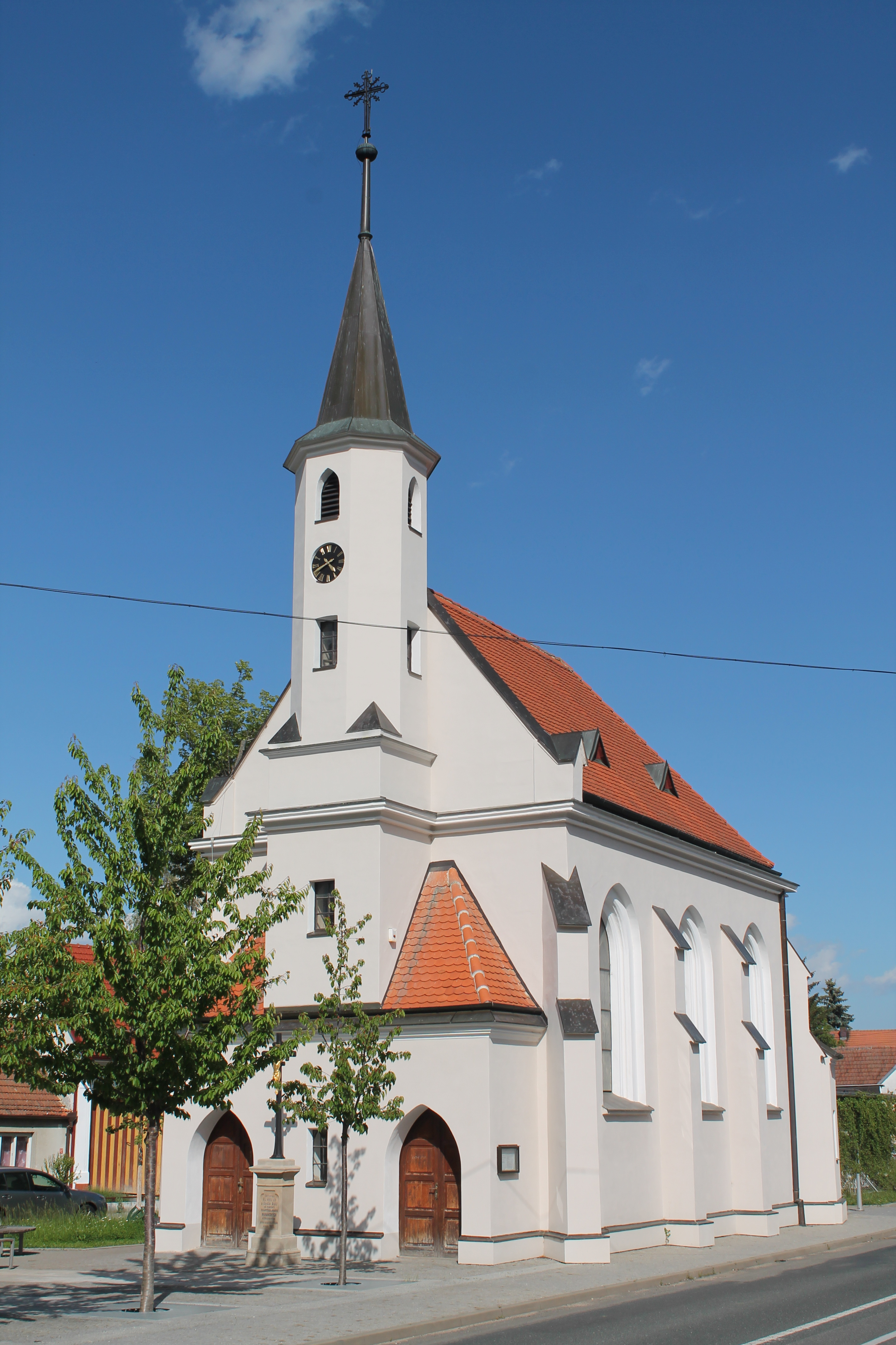 Chapel of Saint John the Baptist, Ostopovice, Brno-Country District, Czech Republic